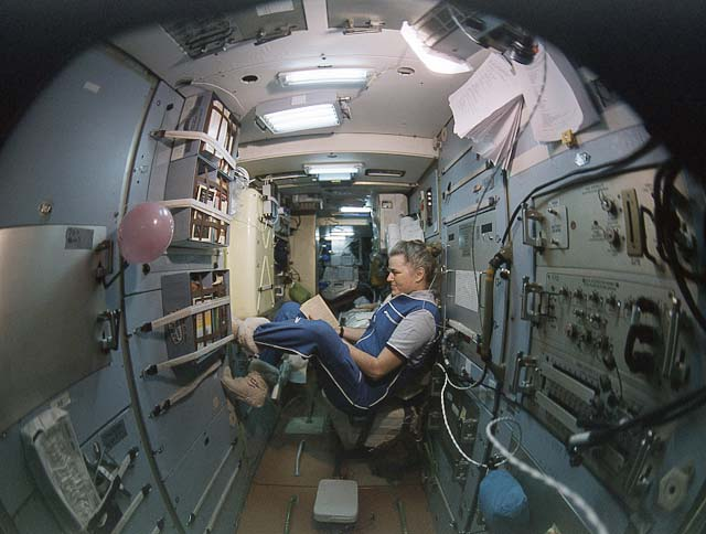 Shannon Lucid reading in Spektr (module of Mir Space Station) on STS-79